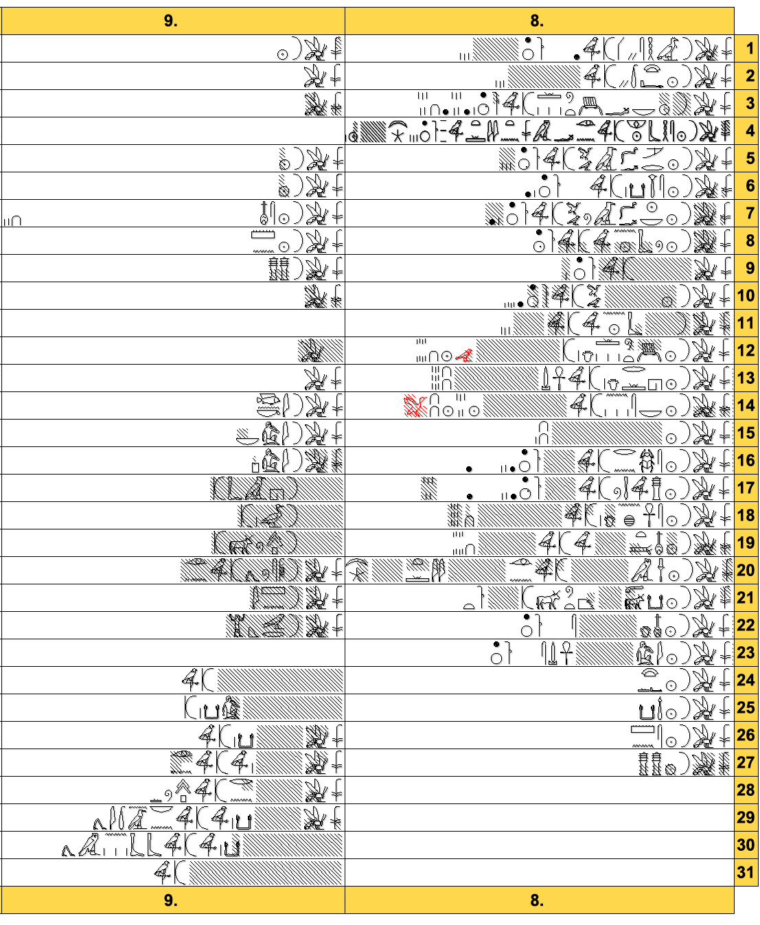 Drawing of the Turin King List (Turin Royal Canon)